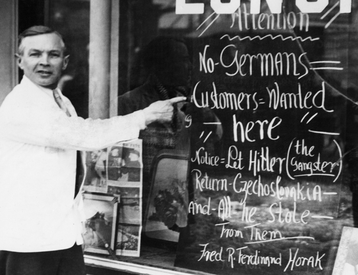 Restaurant operator Fred Horak of Somerville, Massachusetts, put this sign on the window of his lunch room, shown March 18, 1939. Horak was a native of Prague, Czechoslovakia. (AP Photo)